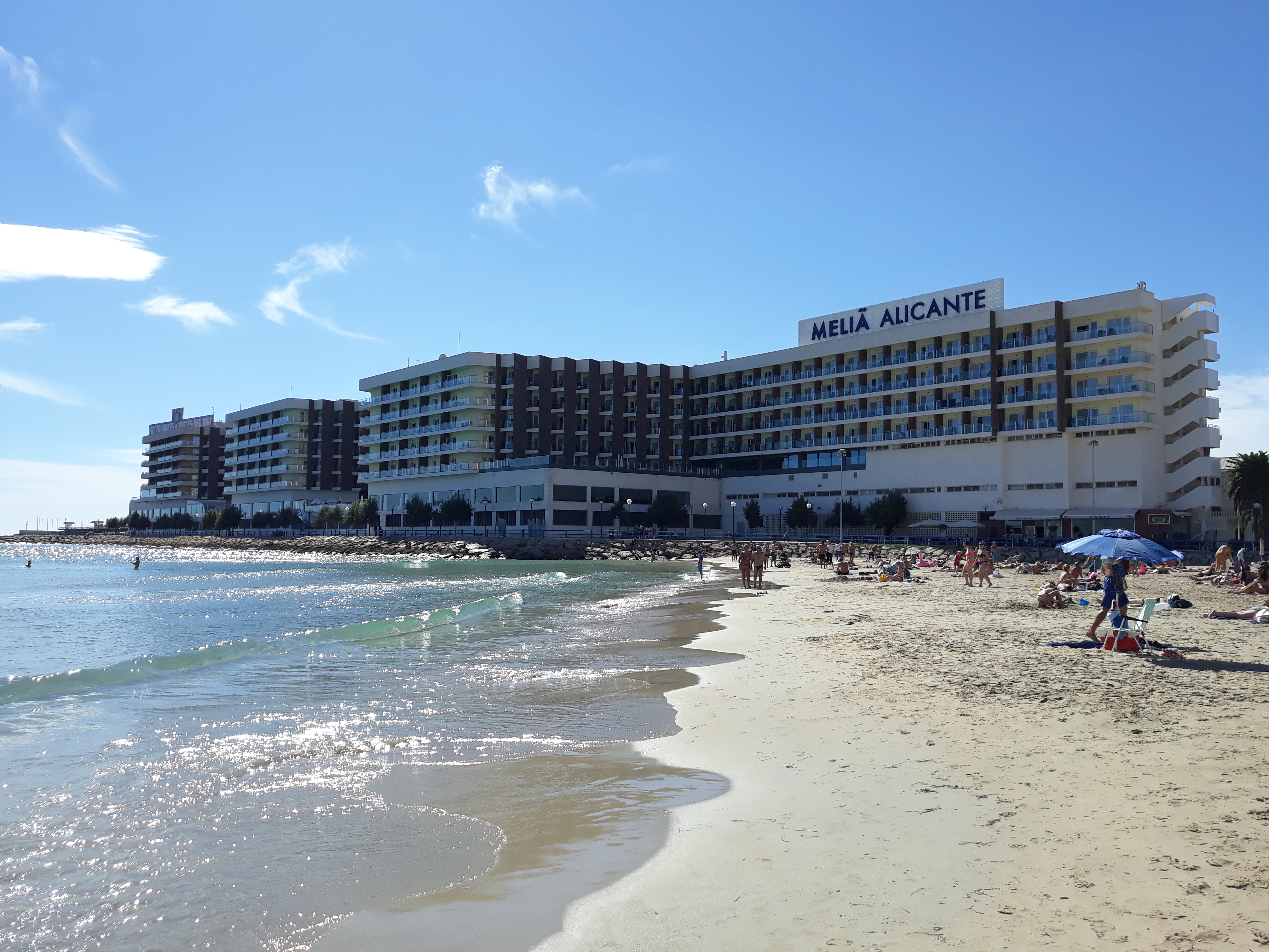 Building in Alicante